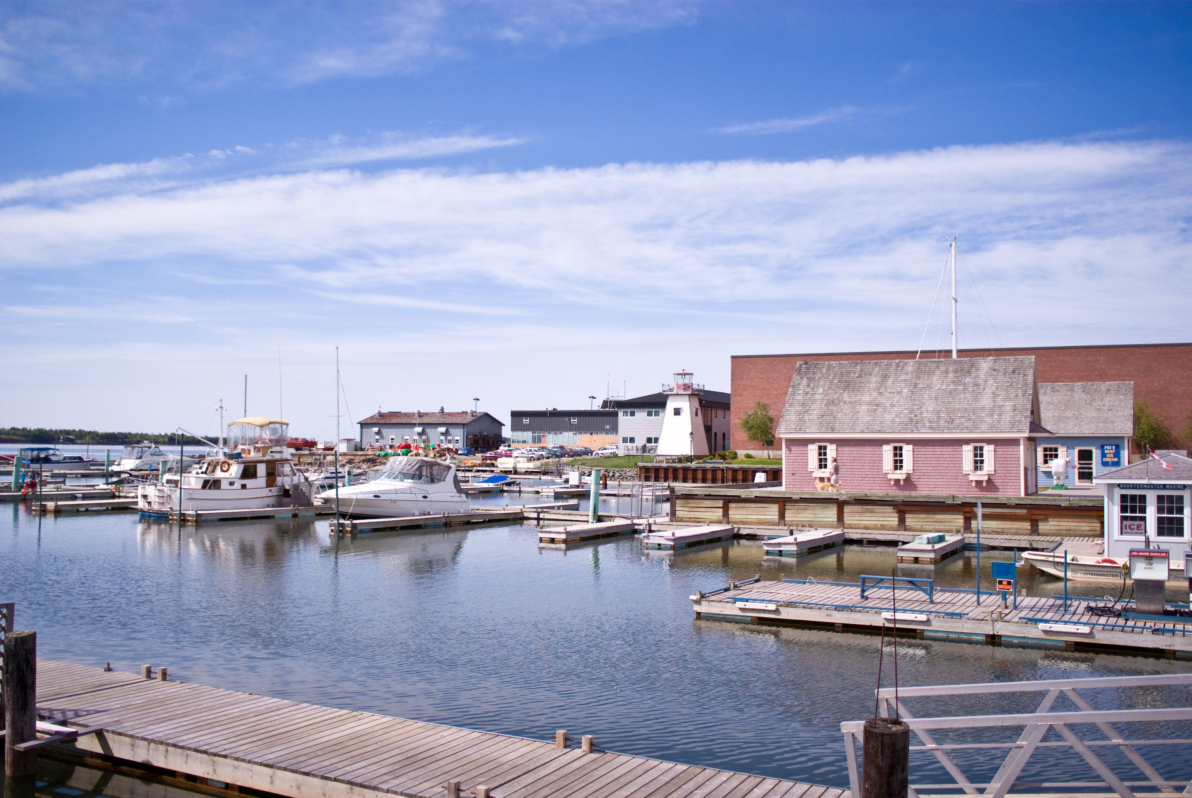 Charlottetown Harbour, Prince Edward Island.